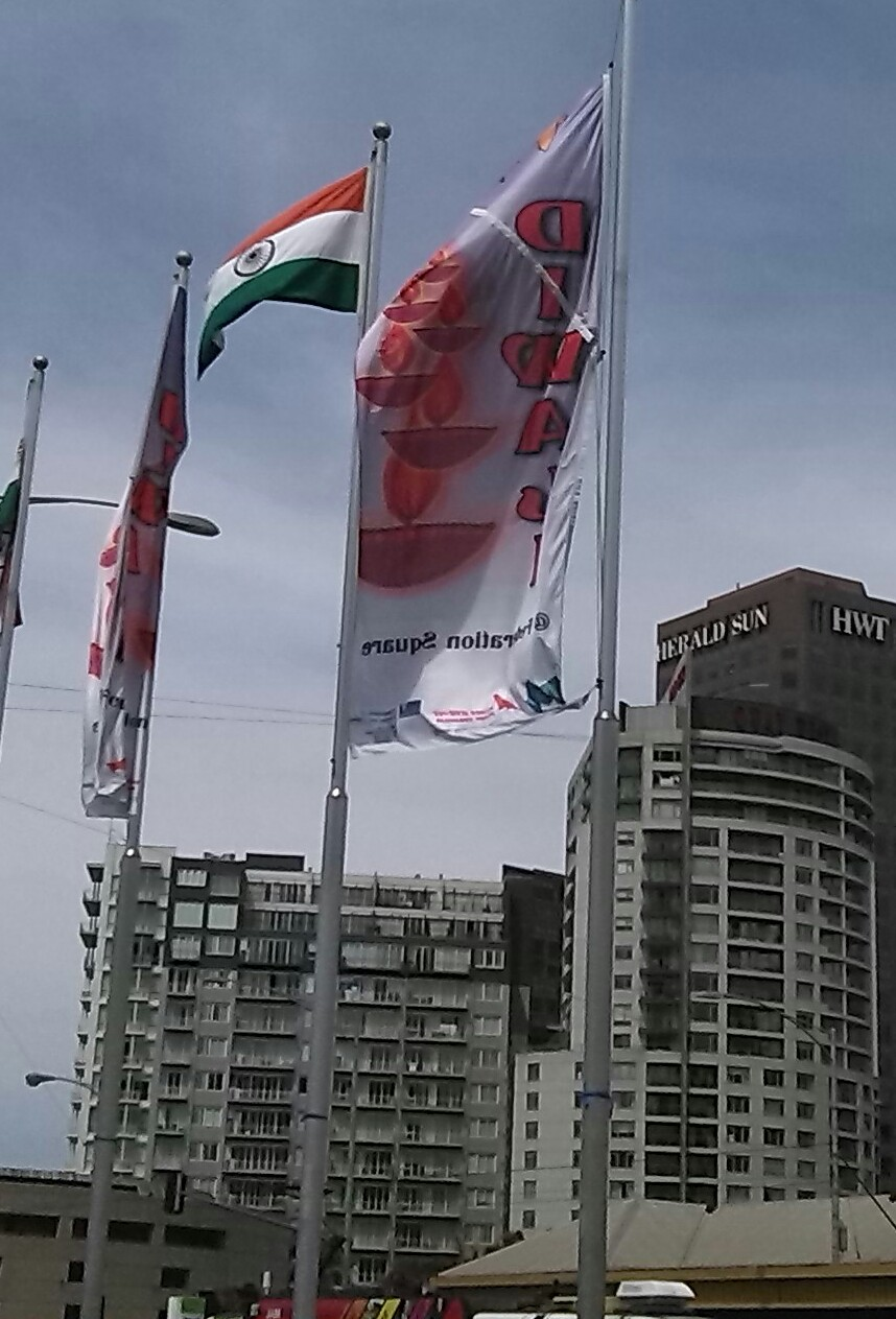 Diwali Celebrations indian flag Melbourne 2014